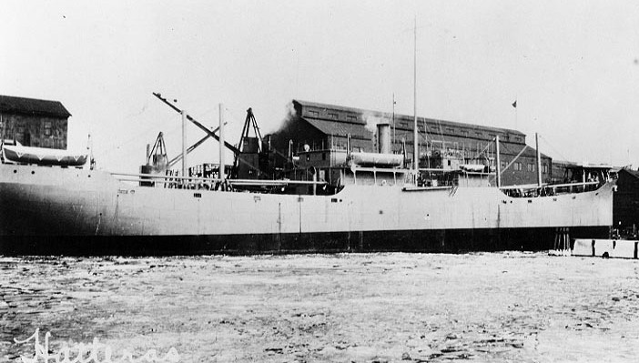 From U.S. Navy public domain Photo #: NH 101779 SS Hatteras (U.S. Freighter, 1917) Probably photographed in 1917 while still in the hands of her builders, Bethlehem Shipbuilding, Sparrows Point, Maryland. Ordered for the Cunard Line under the name War Dragon, she was taken over by the Navy and served during World War I as USS Hatteras (ID # 2142). The original print is in National Archives' Record Group 19-LCM. U.S. Naval Historical Center Photograph.